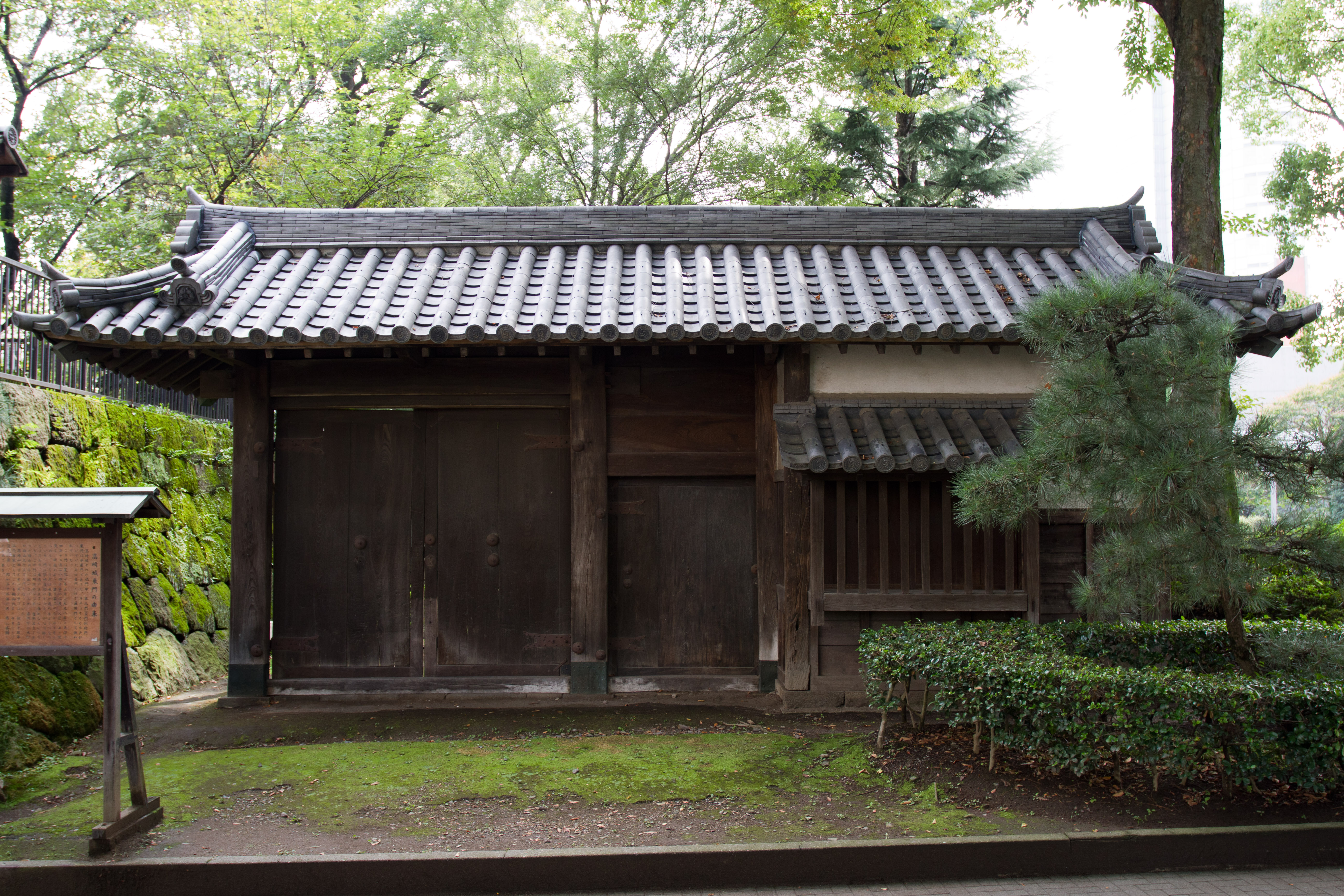 Takasaki Castle, Higashi Gate